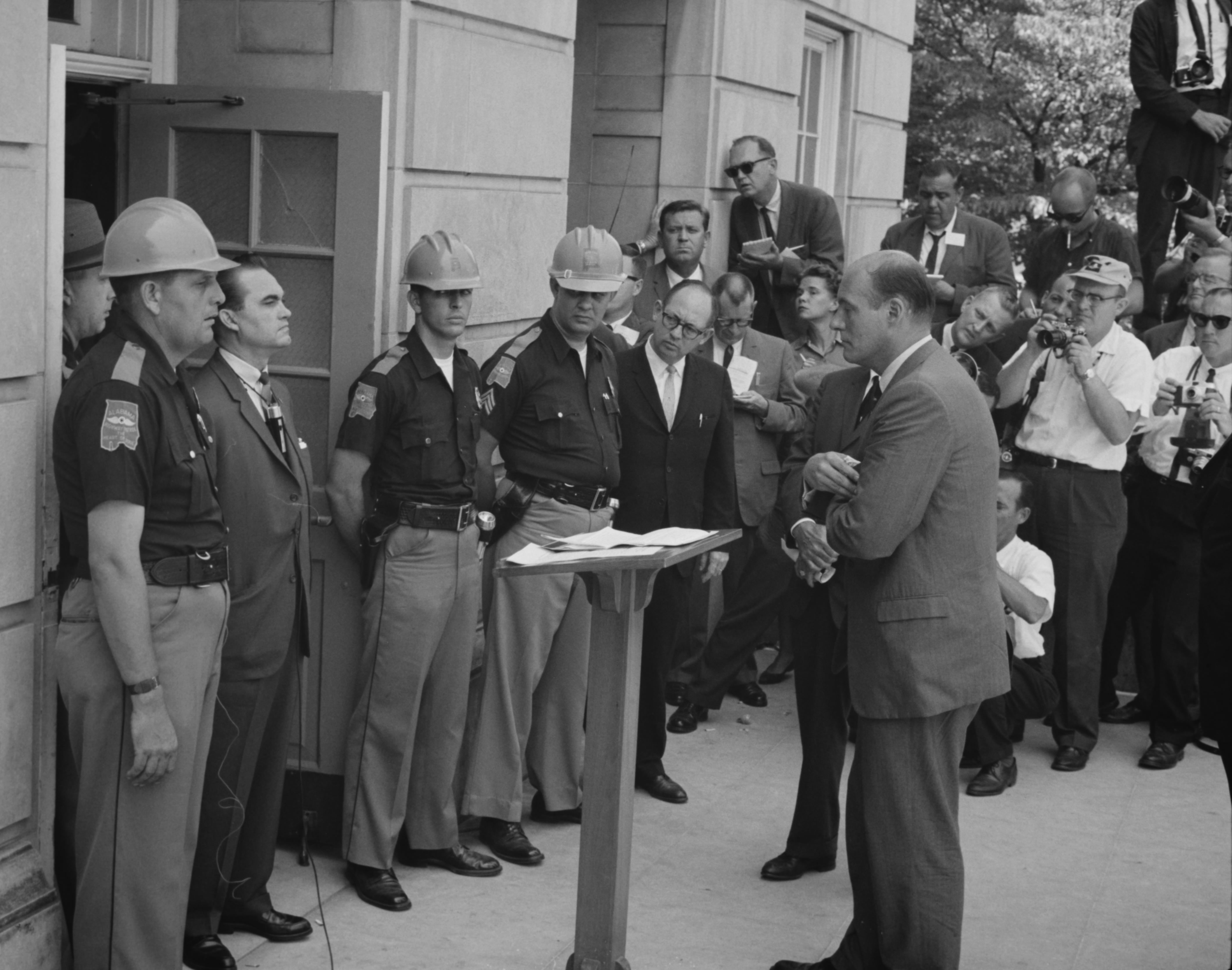 Attempting to block integration at the University of Alabama, Governor George Wallace stands defiantly at the door while being confronted by Deputy U.S. Attorney General Nicholas Katzenbach.